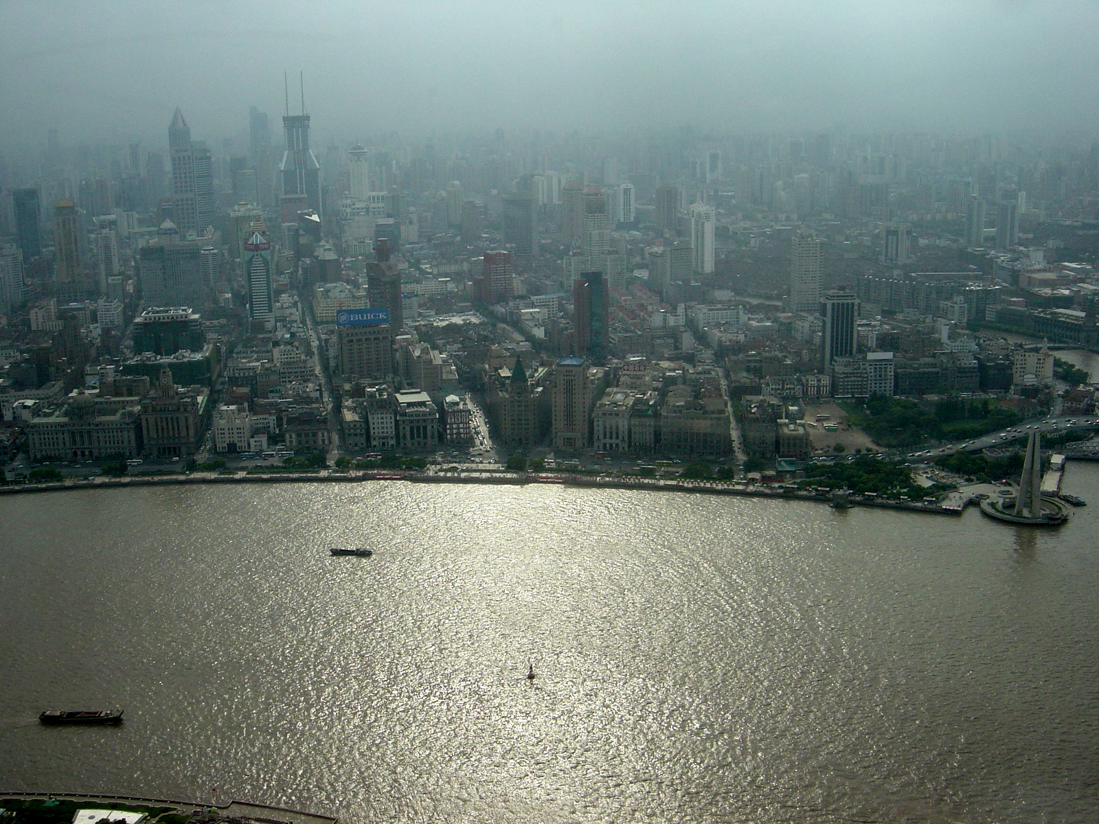 The Bund viewed from Oriental Pearl Tower in Pudong, Shanghai.